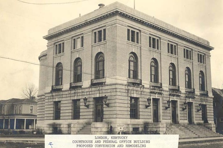 Federal Building-Courthouse, London (Laurel County, Kentucky) cropped This work is in the public domain in the United States because it is a work prepared by an officer or employee of the United States Government as part of that person’s official duties under the terms of Title 17, Chapter 1, Section 105 of the US Code. See Copyright. Note: This only applies to original works of the Federal Government and not to the work of any individual U.S. state, territory, commonwealth, county, municipality, or any other subdivision. This template also does not apply to postage stamp designs published by the United States Postal Service since 1978. (See § 313.6(C)(1) of Compendium of U.S. Copyright Office Practices). It also does not apply to certain US coins; see The US Mint Terms of Use. This file has been identified as being free of known restrictions under copyright law, including all related and neighboring rights. This work is in the public domain in the United States because it was published (or registered with the U.S. Copyright Office) before January 1, 1923. Public domain works must be out of copyright in both the United States and in the source country of the work in order to be hosted on the Commons. If the work is not a U.S. work, the file must have an additional copyright tag indicating the copyright status in the source country. PD-1923 Public domain in the United States //commons.wikimedia.org/wiki/File:Federal_Building-Courthouse,_London_(Laurel_County,_Kentucky).jpg Object location37° 07′ 39″ N, 84° 04′ 57″ W